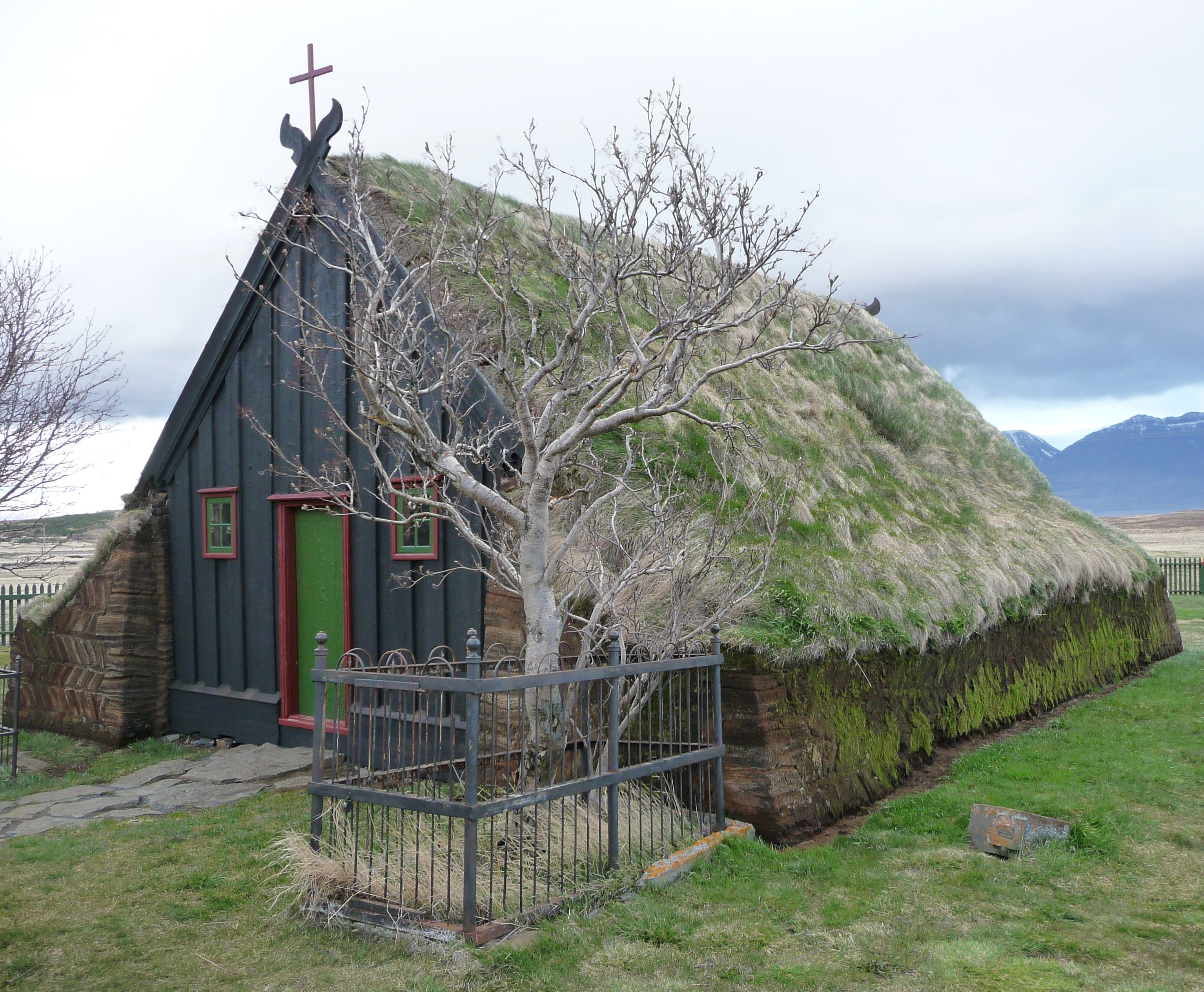 Víðimýrarkirkja is one of only 3 remaining grass-roofed churches in Iceland that are still used. It is located in the Skagafjörður municipality in the north of Iceland.